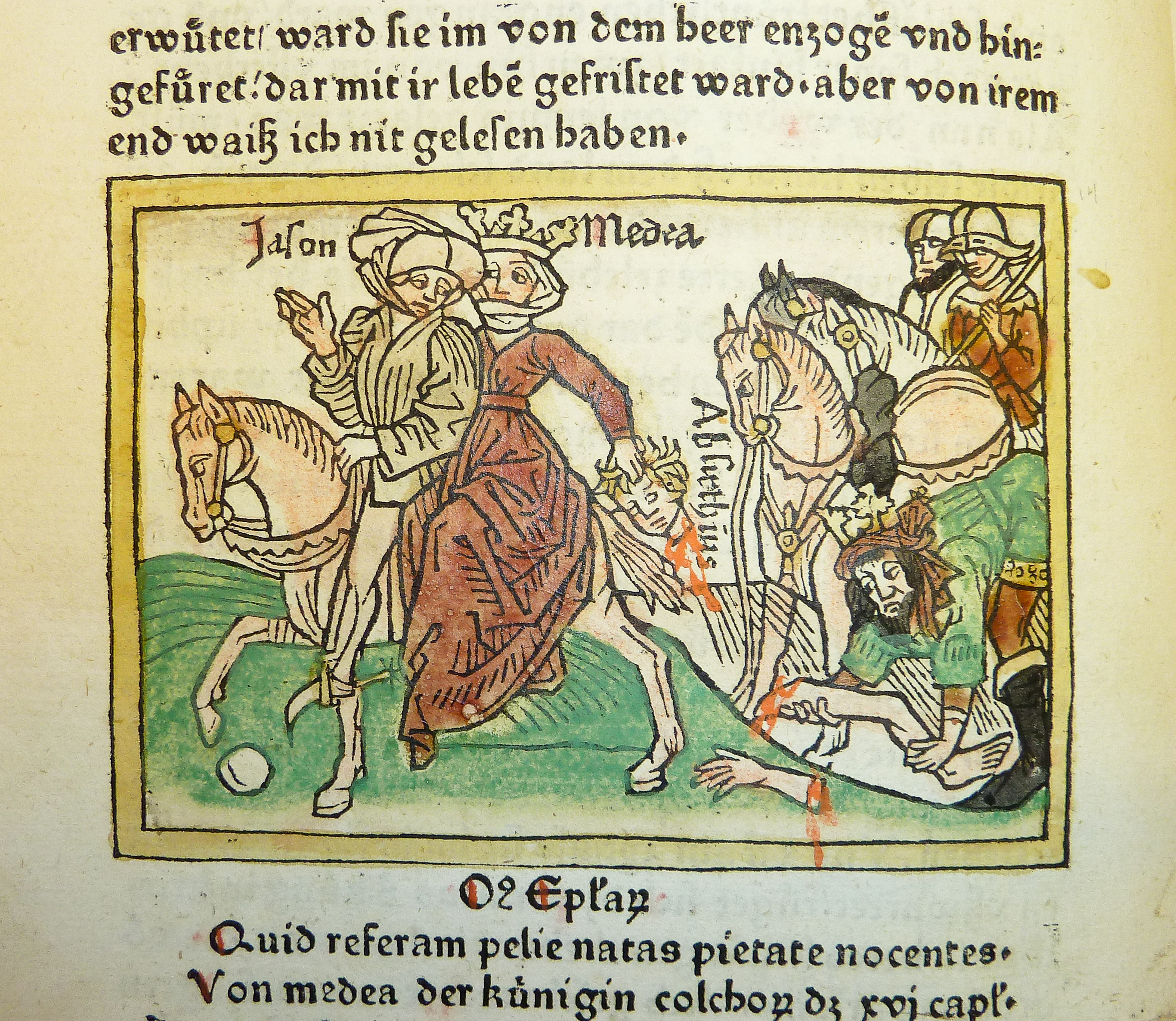 Woodcut illustration (leaf [d]2v, f. xxij) of the escape of Jason with Medea and the death of her brother Absyrtis, hand-colored in red, green, yellow and black, from an incunable German translation by Heinrich Steinhöwel of Giovanni Boccaccio's De mulieribus claris, printed by Johannes Zainer at Ulm ca. 1474 (cf. ISTC ib00720000). One of 76 woodcut illustrations (1 on leaf [e]8v dated 1473), each 80 x 110 mm., depicting scenes from the life of the women chronicled (for a full list of subjects, cf. W.L. Schreiber, Handbuch der Holz- und Metallschnitte des XV. Jahrhunderts (Nendeln: Kraus Reprints, 1969), no. 3506). "Pour la première moitie le nom se trouve inscrit à côte de la tête de chaque femme, pour le reste il es ajouté entre les deux réglettes. Il n'y en a que trois, qui n'ont qu'un seul trait carré."--Schreiber. Established form: Zainer, Johannes, ‡d d. 1541?. Established form: Medea (Greek mythology) Established form: Jason (Greek mythology) Penn Libraries call number: Inc B-720 All images from this book Penn Libraries catalog record